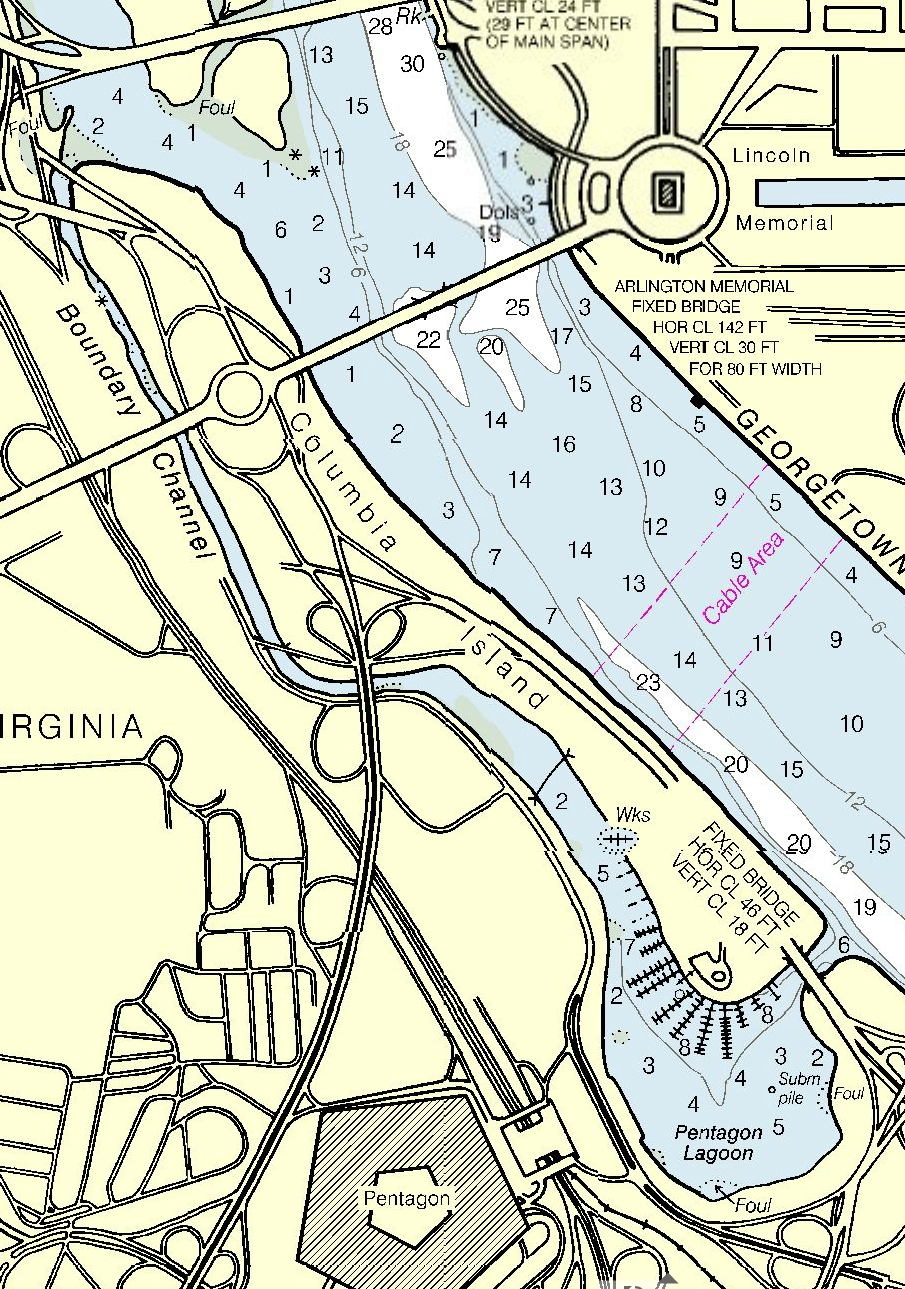 Portion of a National Oceanic and Atmospheric Administration (NOAA) coastal navigation chart showing the Boundary Channel, Pentagon Lagoon, and Potomac River in Washington, D.C., in the United States. Depths (as of May 4, 2013) are shown. This image should not be used for navigation. Use the official, full scale NOAA nautical chart for real navigation whenever possible. Screen captures of online viewable charts do not fulfill chart carriage requirements for regulated commercial vessels under Titles 33 and 46 of the U.S. Code of Federal Regulations.